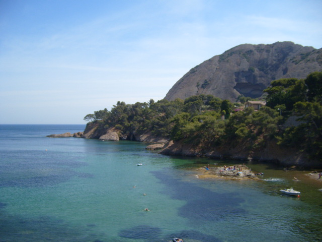 View of the Parc du Mugel, La Ciotat, France